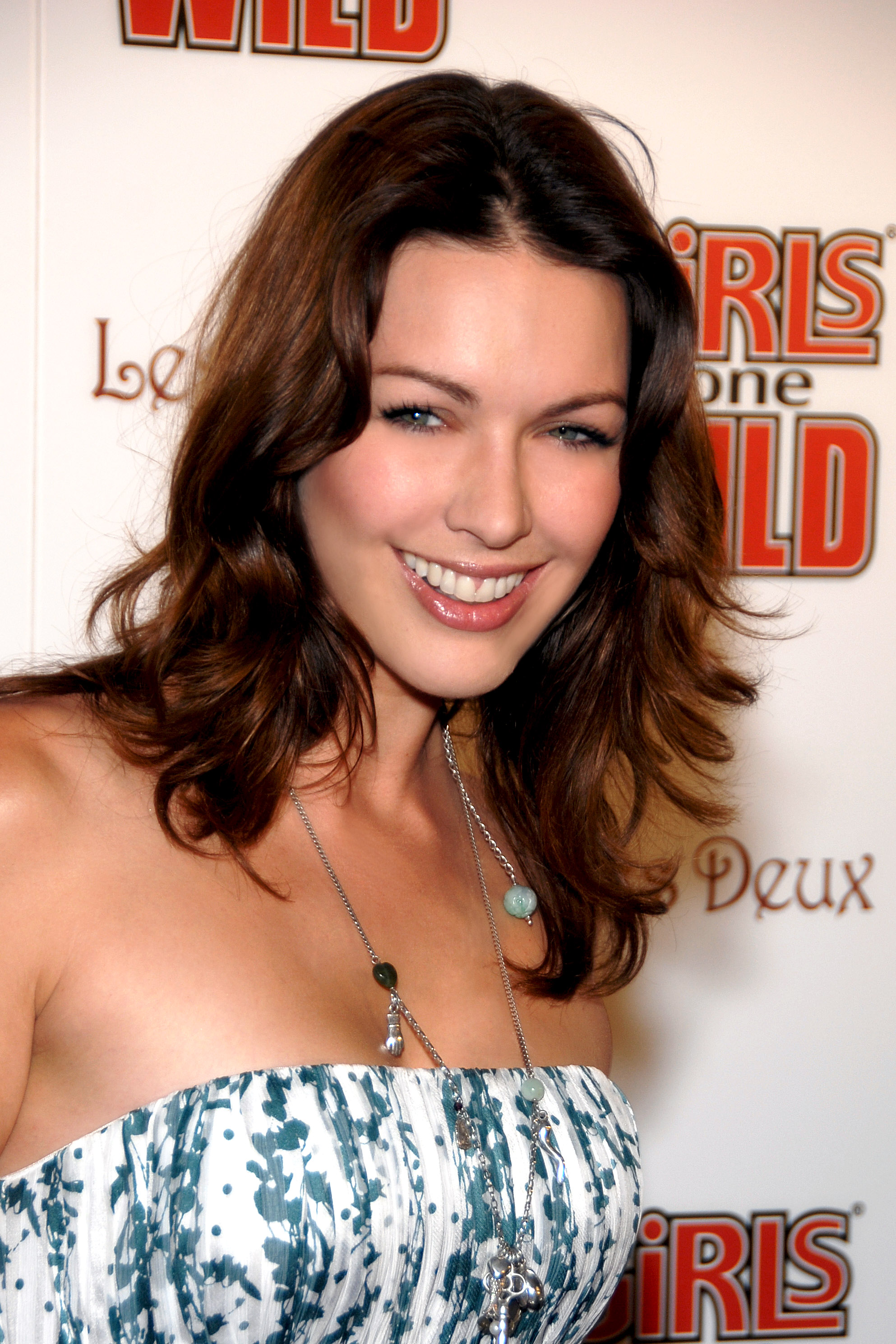 Louise Griffiths attending the second issue release of "Girls Gone Wild Magazine" Party at Les Deux, Hollywood, June 4, 2008 Photo by Glenn Francis (User:Toglenn) of Also available at and